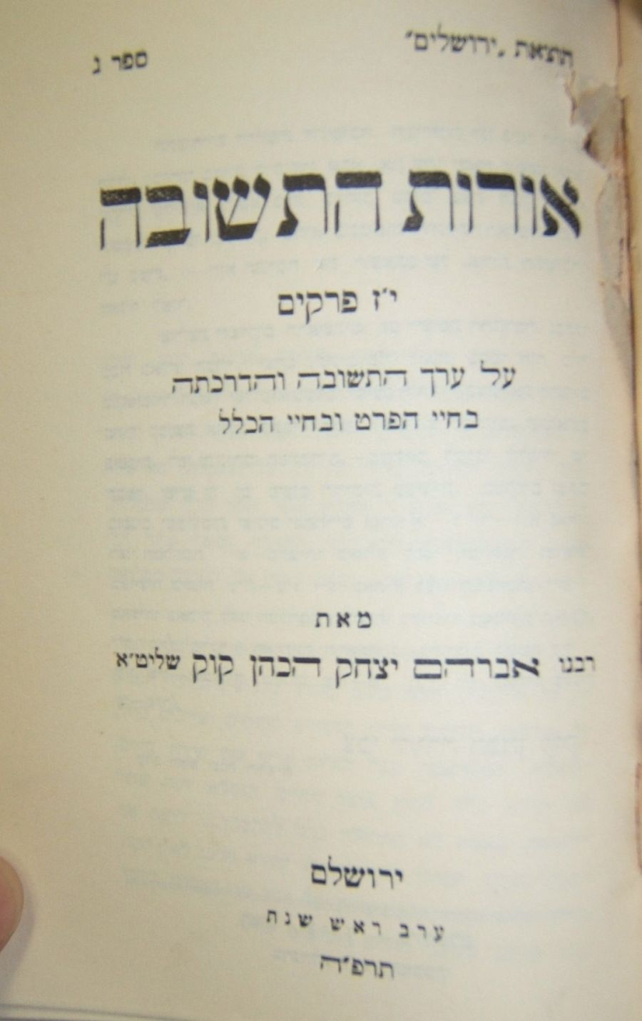 Orot Hatshuvah, Jerusalem 1925 1st ed.